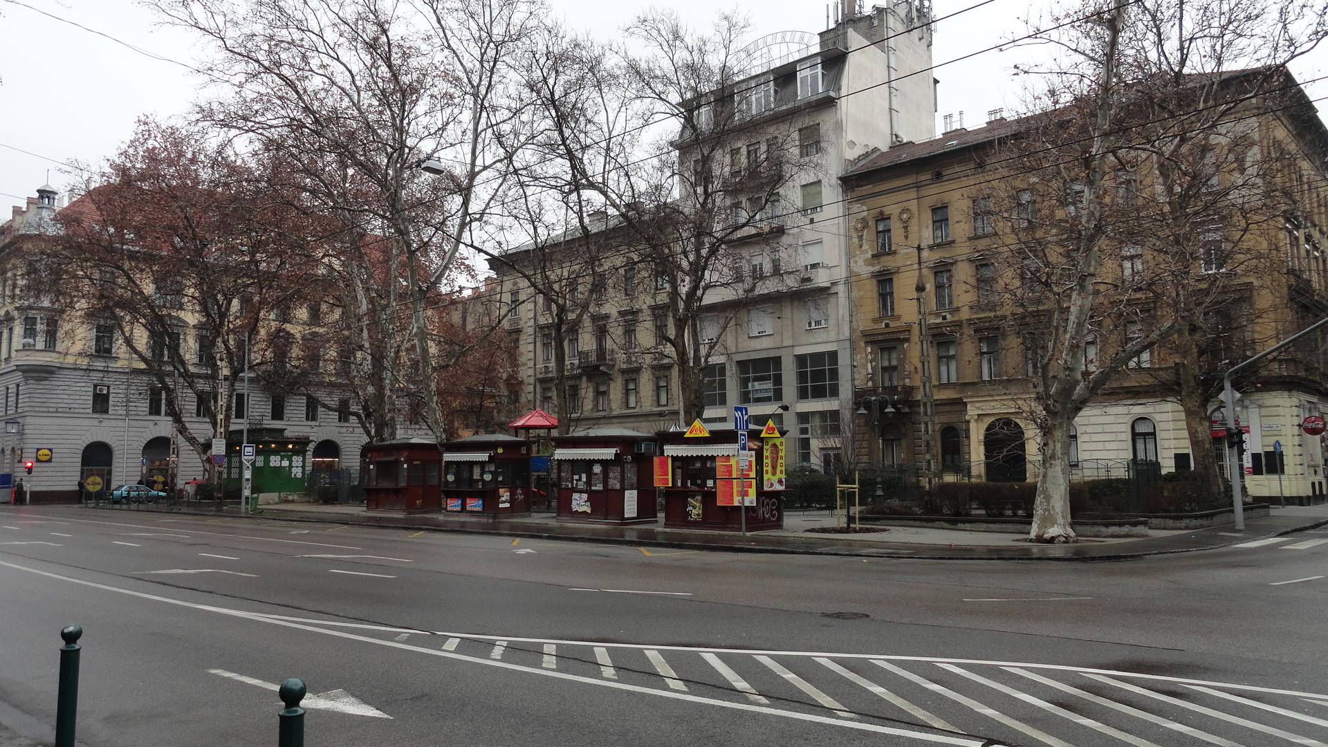 Lövölde square, Budapest.